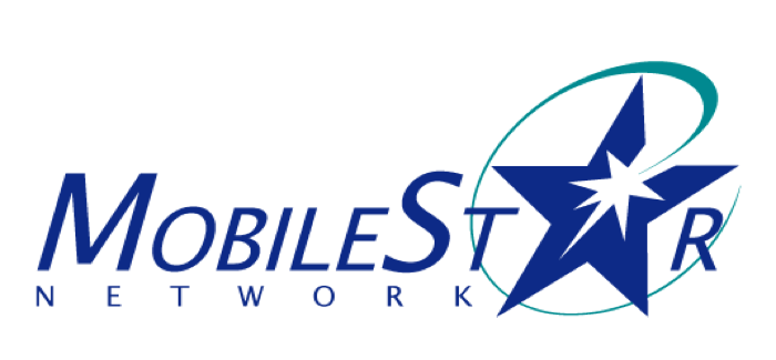 This is the original logo of MobileStar Networks, Inc.